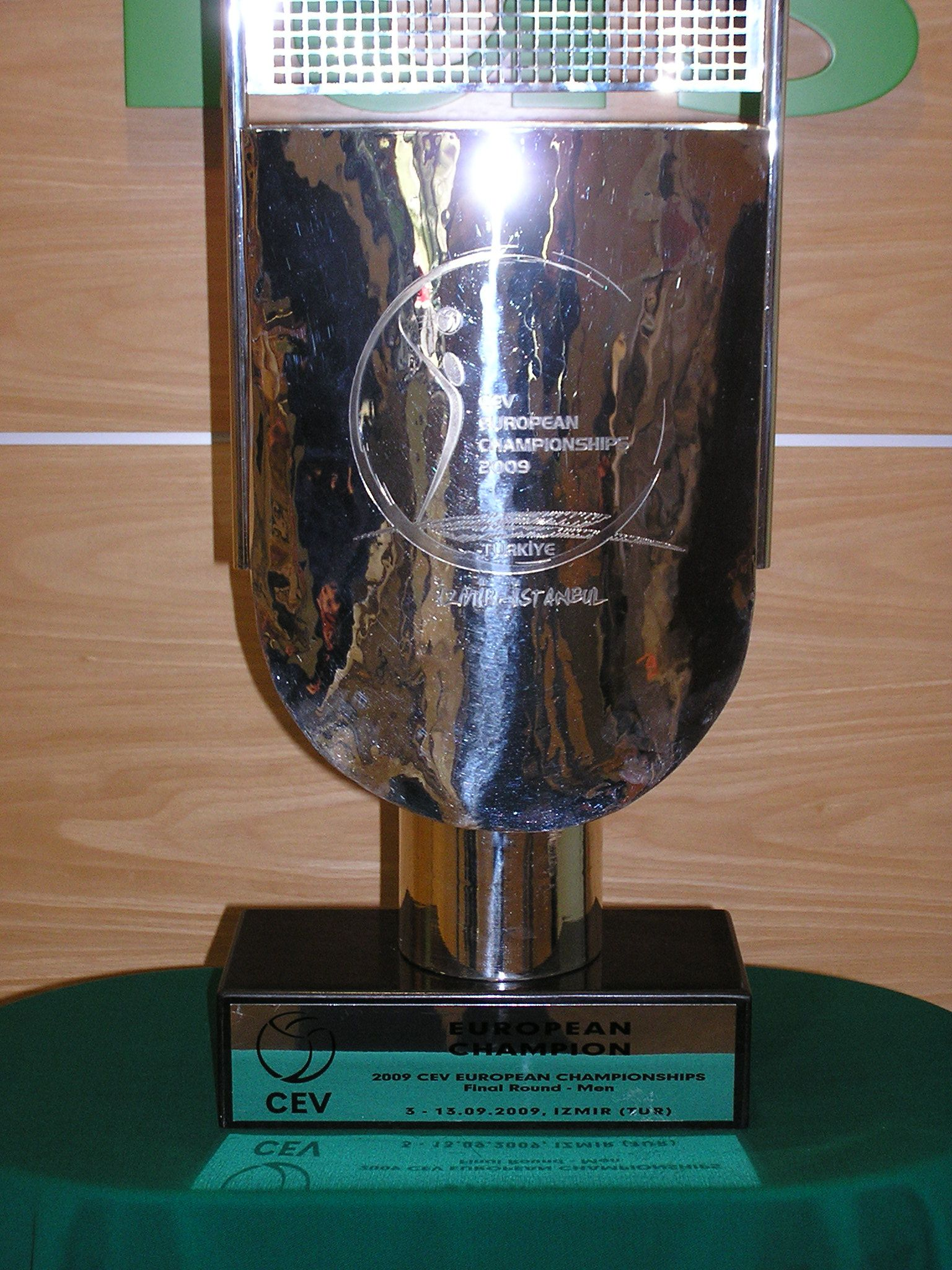 Trophy for the first place in CEV 2009 Men's European Volleyball Championship, won by Polish team.